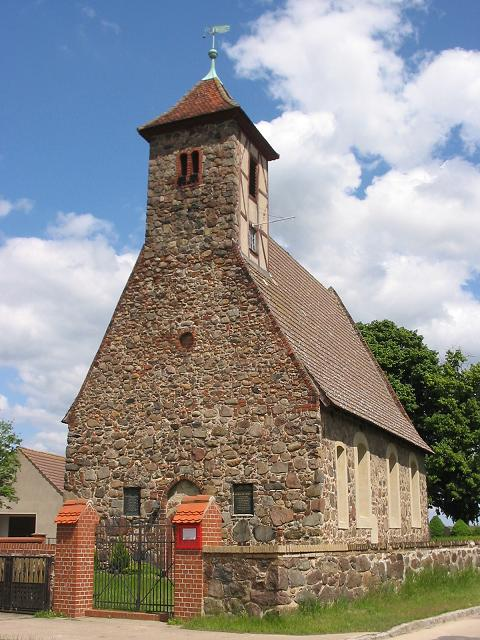 Church Kuhlowitz, built probably in 15th century. Kuhlowitz is an incorporated part of the town Belzig in Brandenburg, Germany.